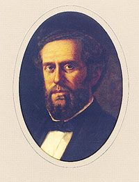 John Ireland, 18th Governor of the State of Texas.